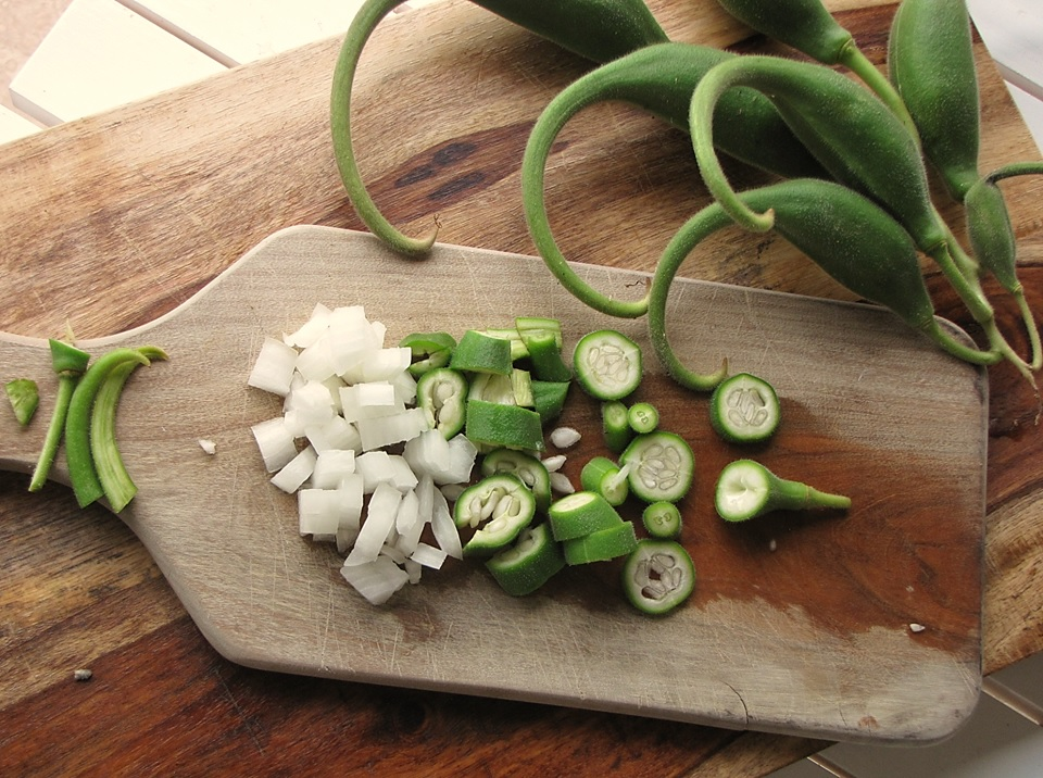 Proboscidea parviflora - A very important traditional indigenous edible and useful plant of the southwest United States. When green the distinctive curve of this fruit earned the name 'unicorn' plant, but when dry the fruits split along the spine to form a double hook, known as the 'double claw' or 'devil's claws' that easily catch on anything brushing past to disperse the seeds. (Not to be confused with the African 'devil's claw' of a completely different species and different use.) Proboscidea parviflora, 'double claw' fruits when picked young and tender green can be cooked like okra or pickled. Older, larger fruits are allowed to dry. The dried seeds are edible and highly nutritious, and can be eaten dry, crushed for oil or ground into flour. The long, dried curved seed pods have for centuries been collected for their strong fibers used in south-western U.S. traditional Native basketry. Cuisine: here shown sliced fresh tender double claw pods with fresh chopped onions ready to be sautéed. Can be substituted for okra in many well-known okra recipes.